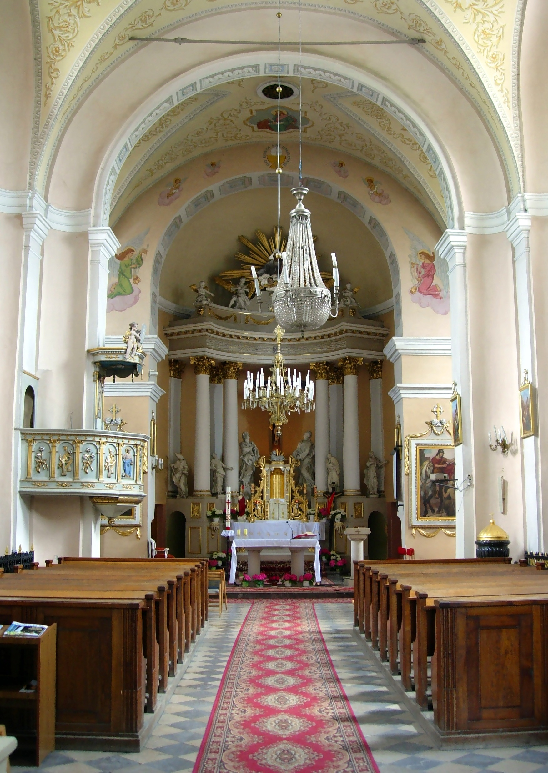 The inside of St.Martin church in Wodzisław, Świętokrzyskie Voivodeship, Poland